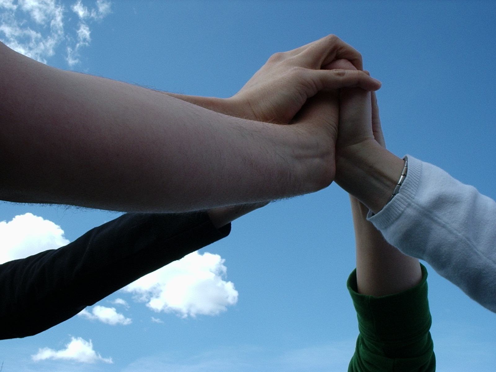 Hands touching